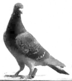 Dark slate-coloured carrier pigeon belonging to Herr Flöring. The bird which is shown carrying a message on its left leg, is 4 years old, has made fifteen ascents in a balloon, and covered 2,400 miles on the return journeys. [Dunkelgeschieferte Brieftaube des Herrn Flöring. Der Vogel, welcher am linken Fuße eine Depeschenhülse aus Gummi trägt, ist 4 Jahre alt, hat 15 Ballonfahrten mitgemacht, und ist 3900 km Landtouren geflogen.]